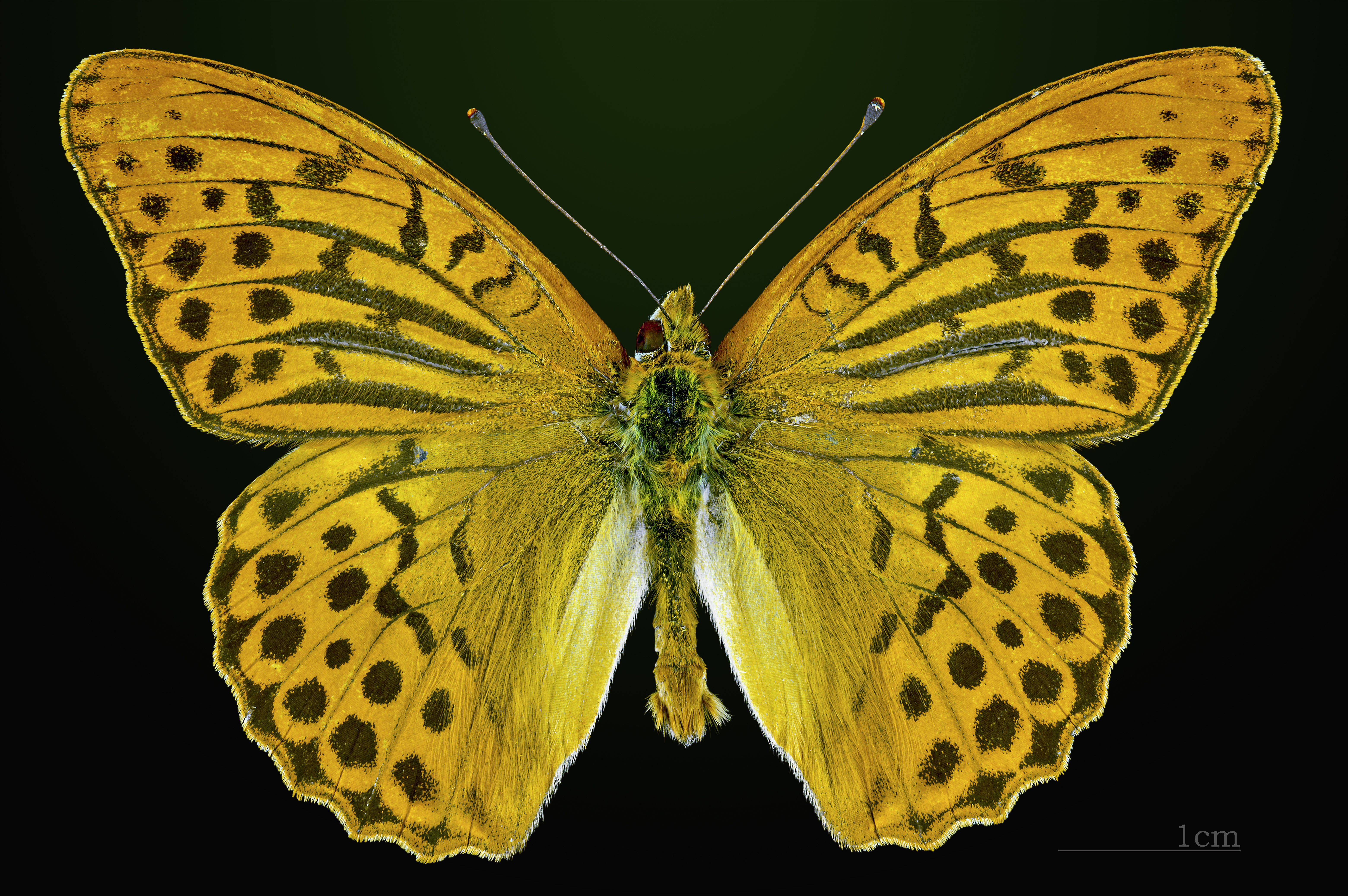 Silver-washed fritillary - ♂ Dorsal side Locality: Pont Gerendoine, Vallouise, Hautes-Alpes, France